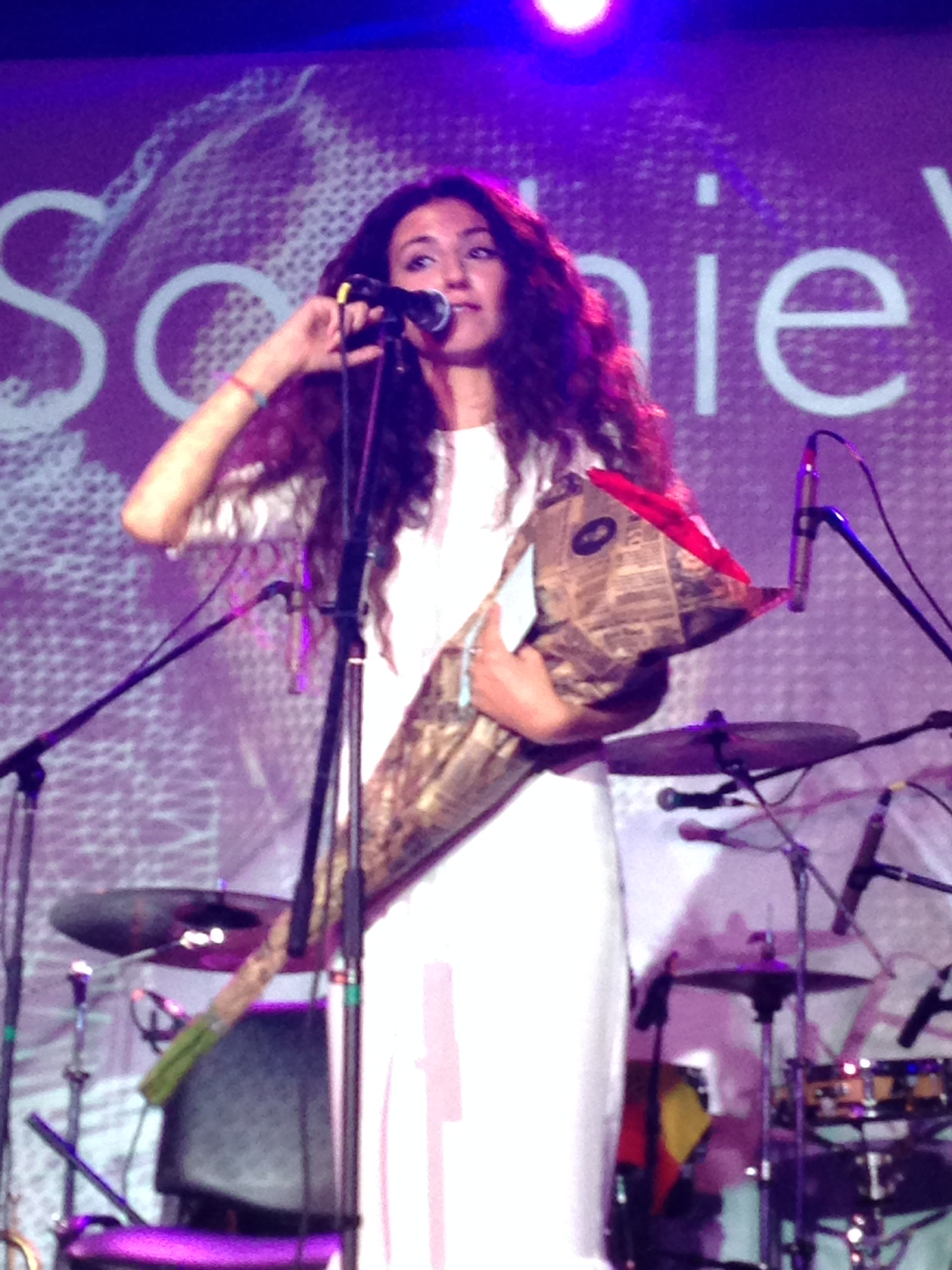 Sophie Villy in Younost